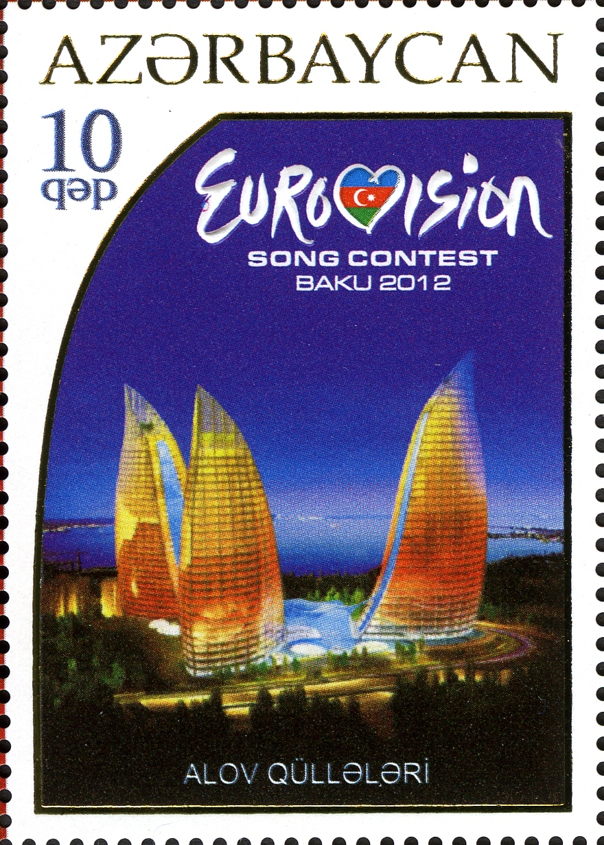 "Eurovision - 2012" song contest